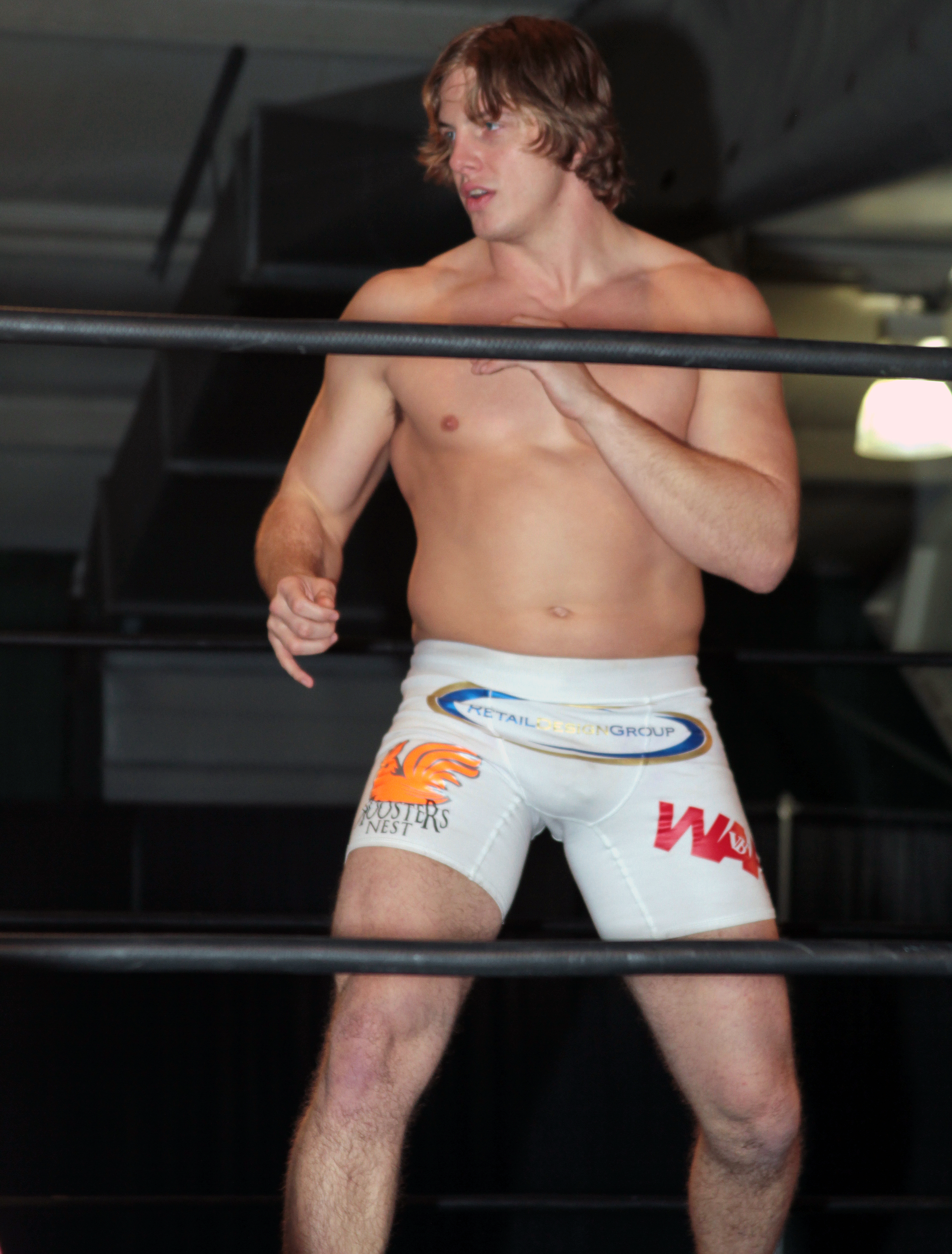 Pro wrestler and former MMA fighter Matthew Riddle at an LCW Wrestling event in Lancaster, Pennsylvania on December 25, 2015.